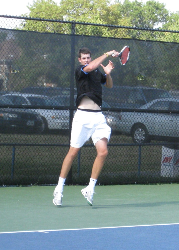 John Isner training at the 2008 Legg Mason Tennis Classic